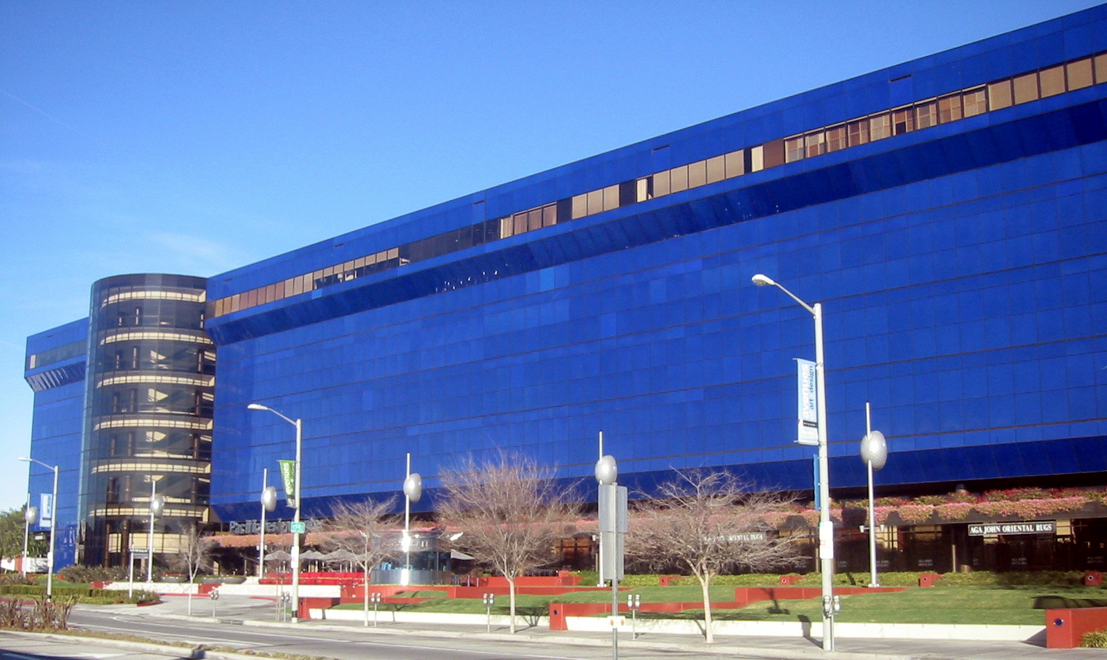 Pacific Design Center in West Hollywood, California